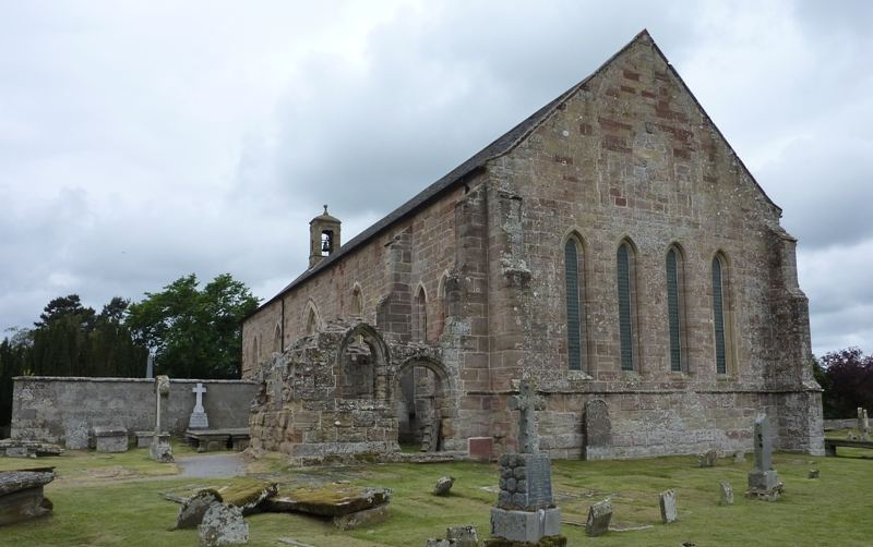 Fearn Abbey, Highland, Scotland - from the south east